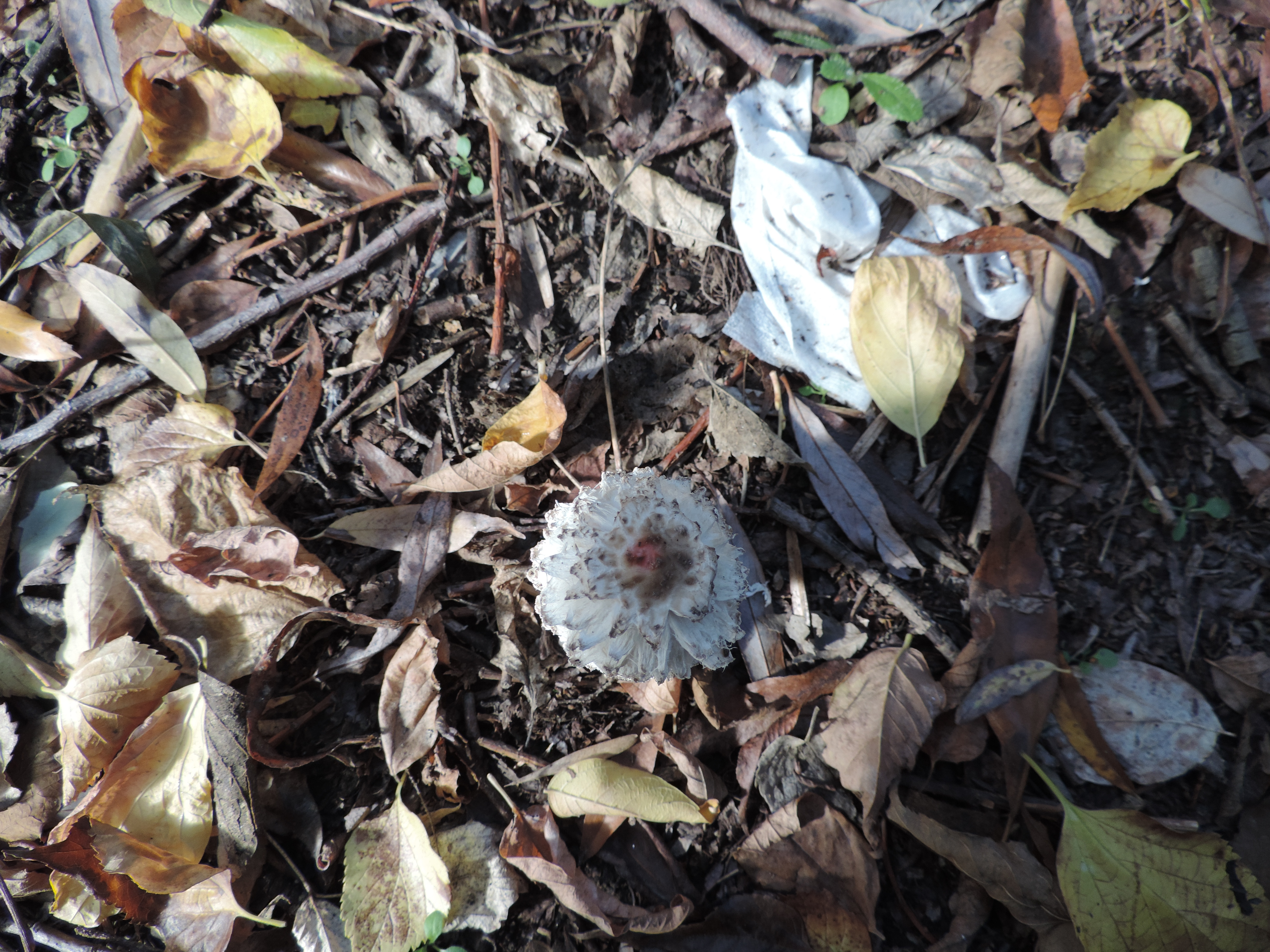 Coprinus comatus